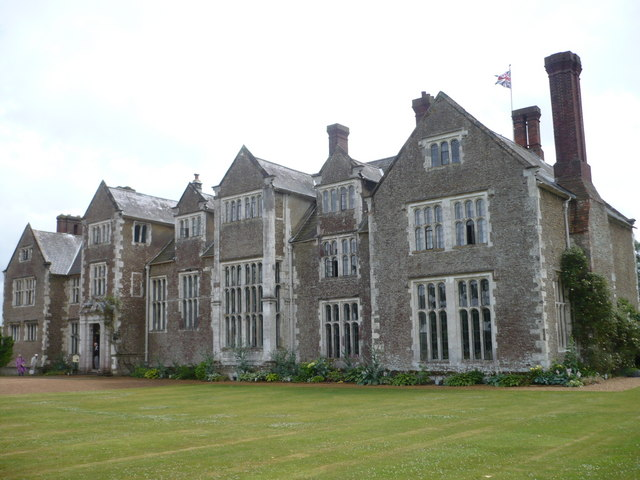 Loseley House, Surrey